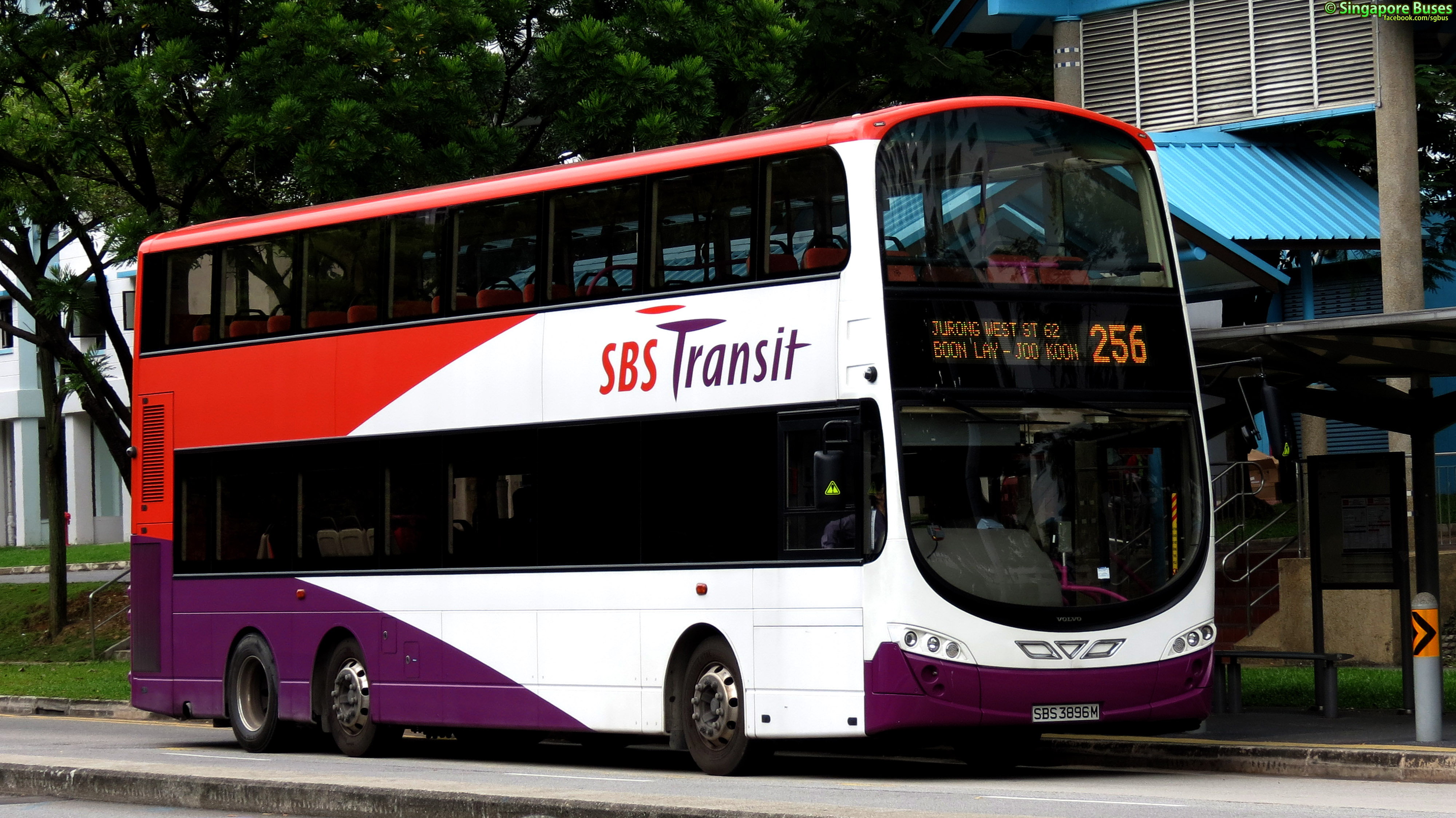 Volvo B9TL SBS Transit Wrightbus bodywork. 150 of these were ordered.